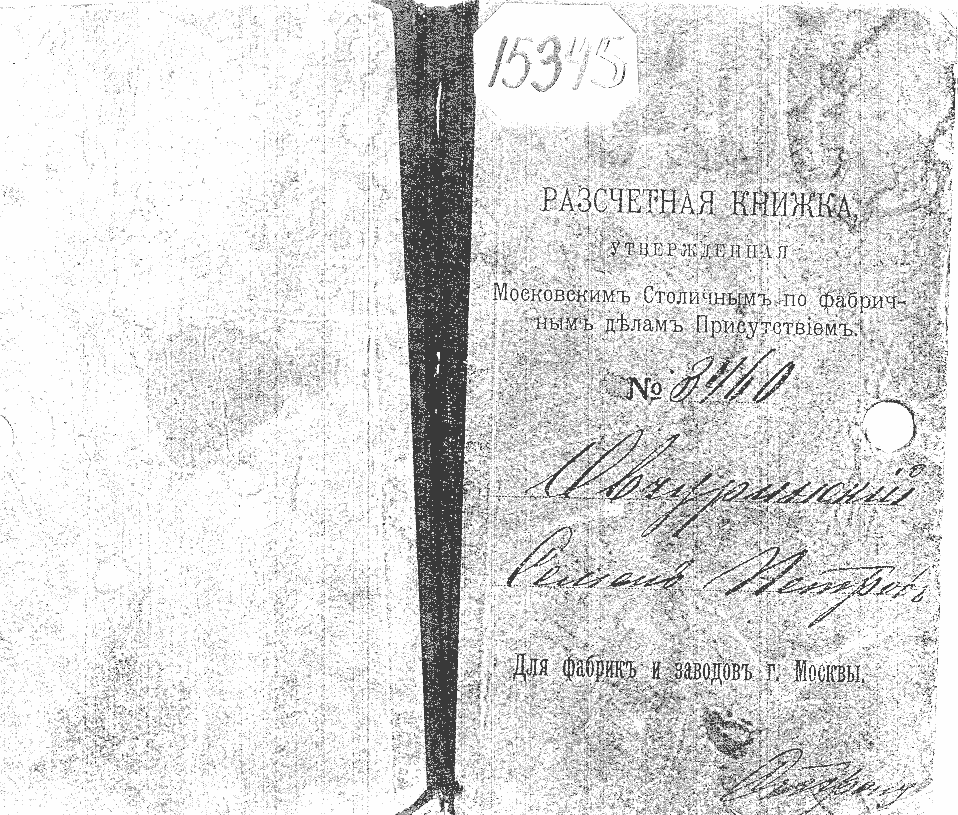 Employment pay book of employee at Moscow Metallurgical Plant (Goujon Plant) / Association of the Moscow Metallic Plant (Guzhon Plant), 1907-1908.